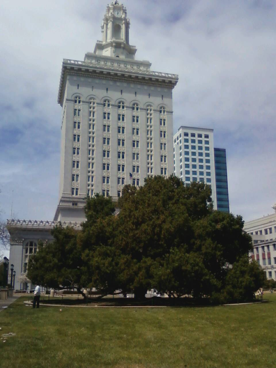 oakland city hall, oakland pak tree, frank ogawa plaza, downtown oakland, daytime, spring, san francisco bay, east bay